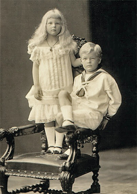 Photo of Olha Ekaterina Ada And Georg Michael Alexander von Merenberg